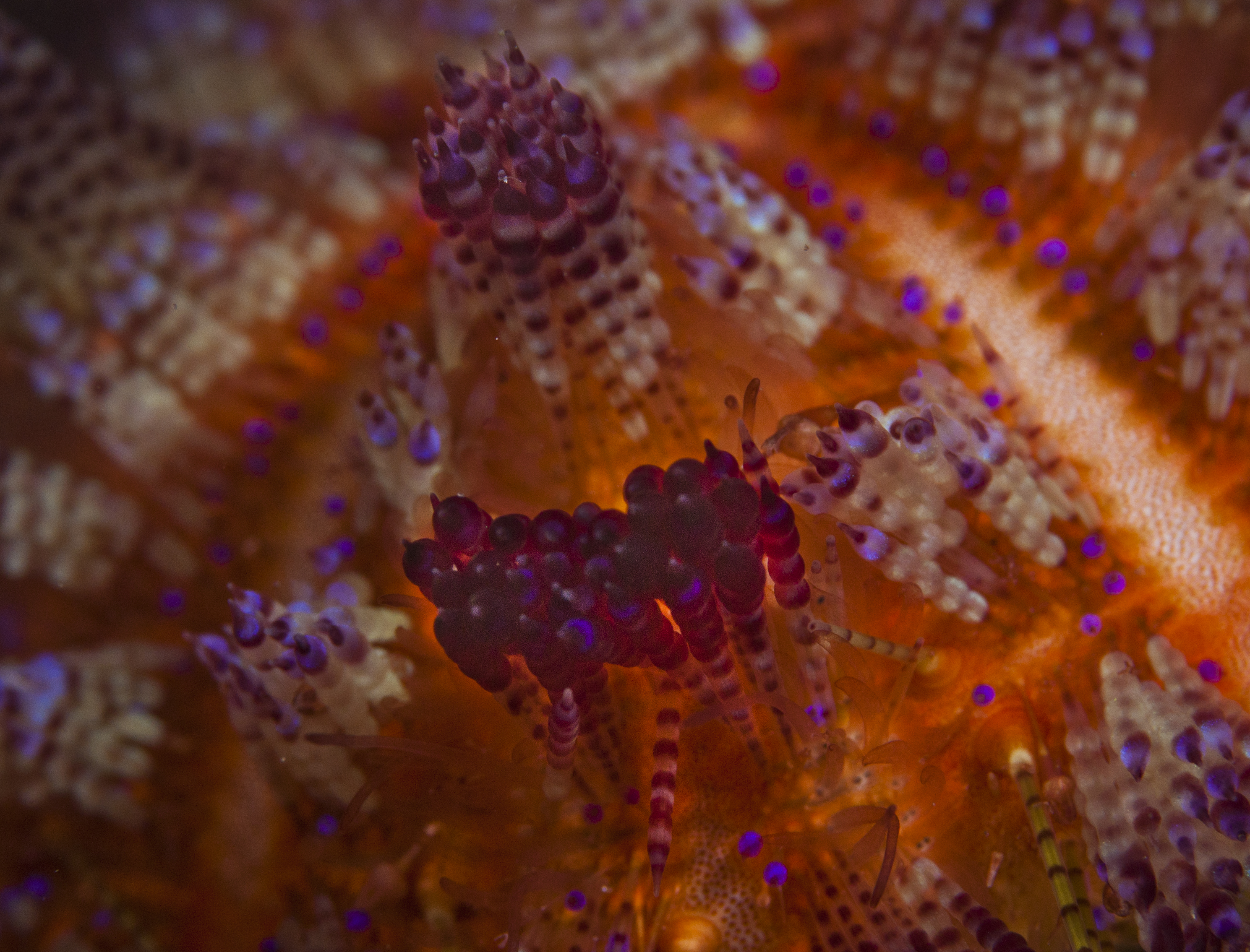 Closeup of a fire urchin, Asthenosoma varium. Near Alor Island, Indonesia.